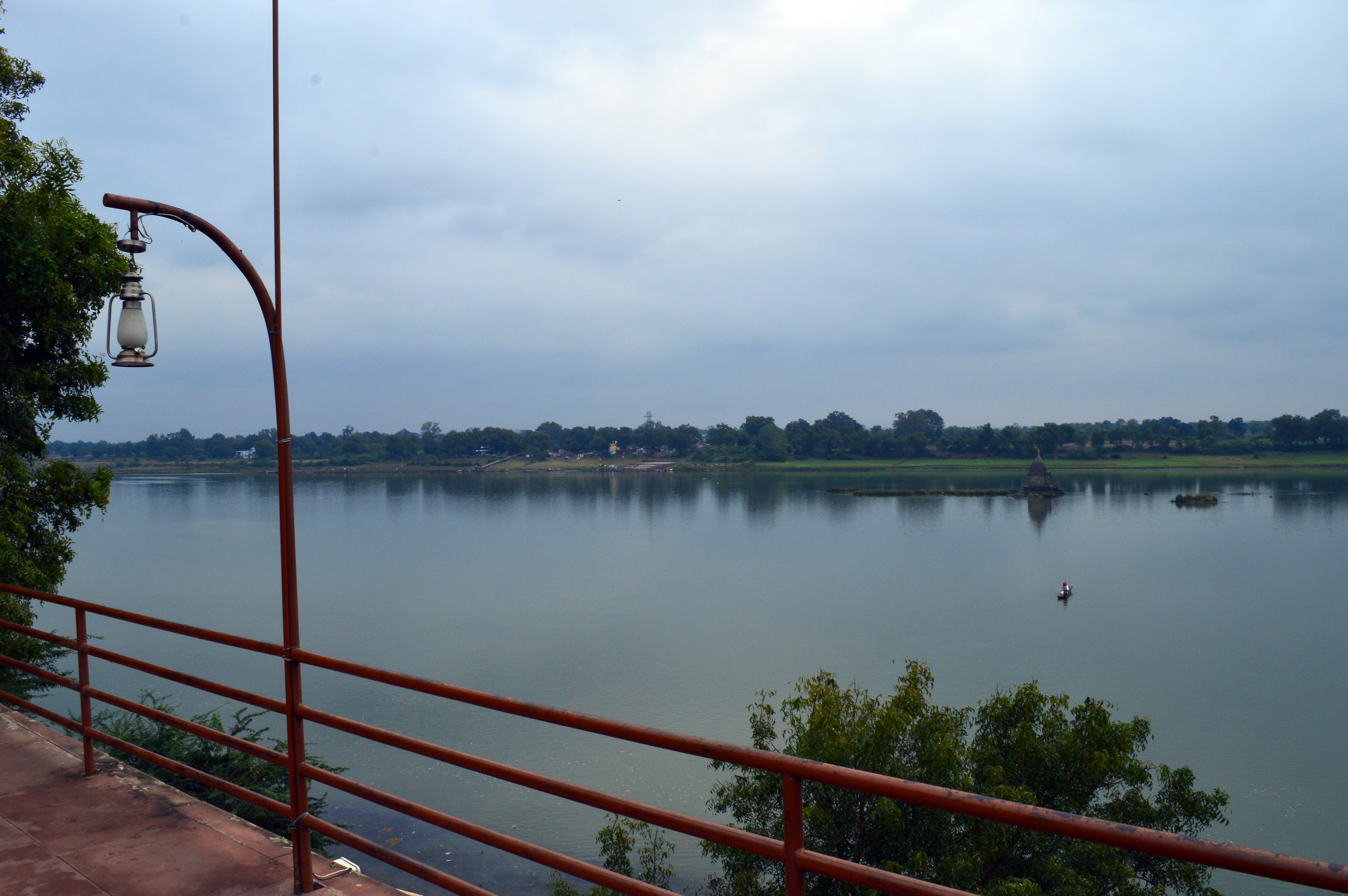 near Maheshwar Fort, Indore, Madhya Pradesh India January 2015